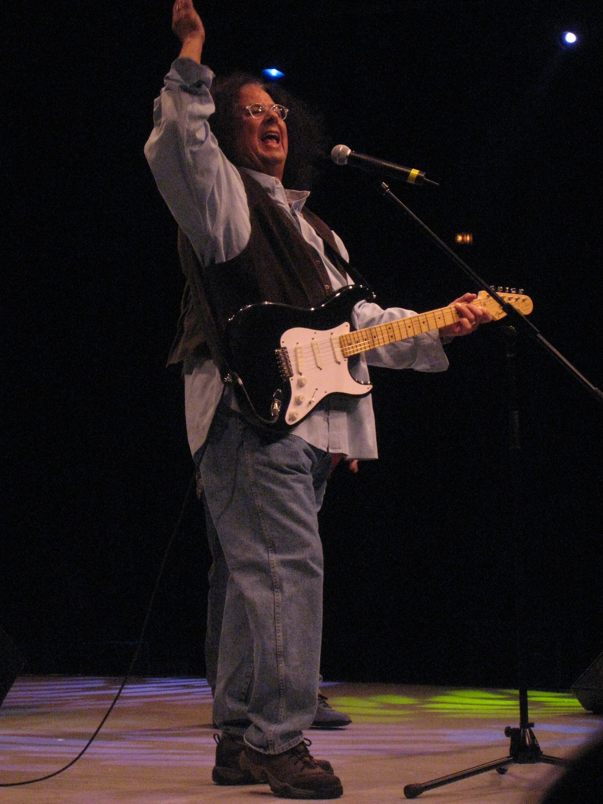 Mark Volman in a concert performance with Howard Kaylan in Westbury, NY, 2008